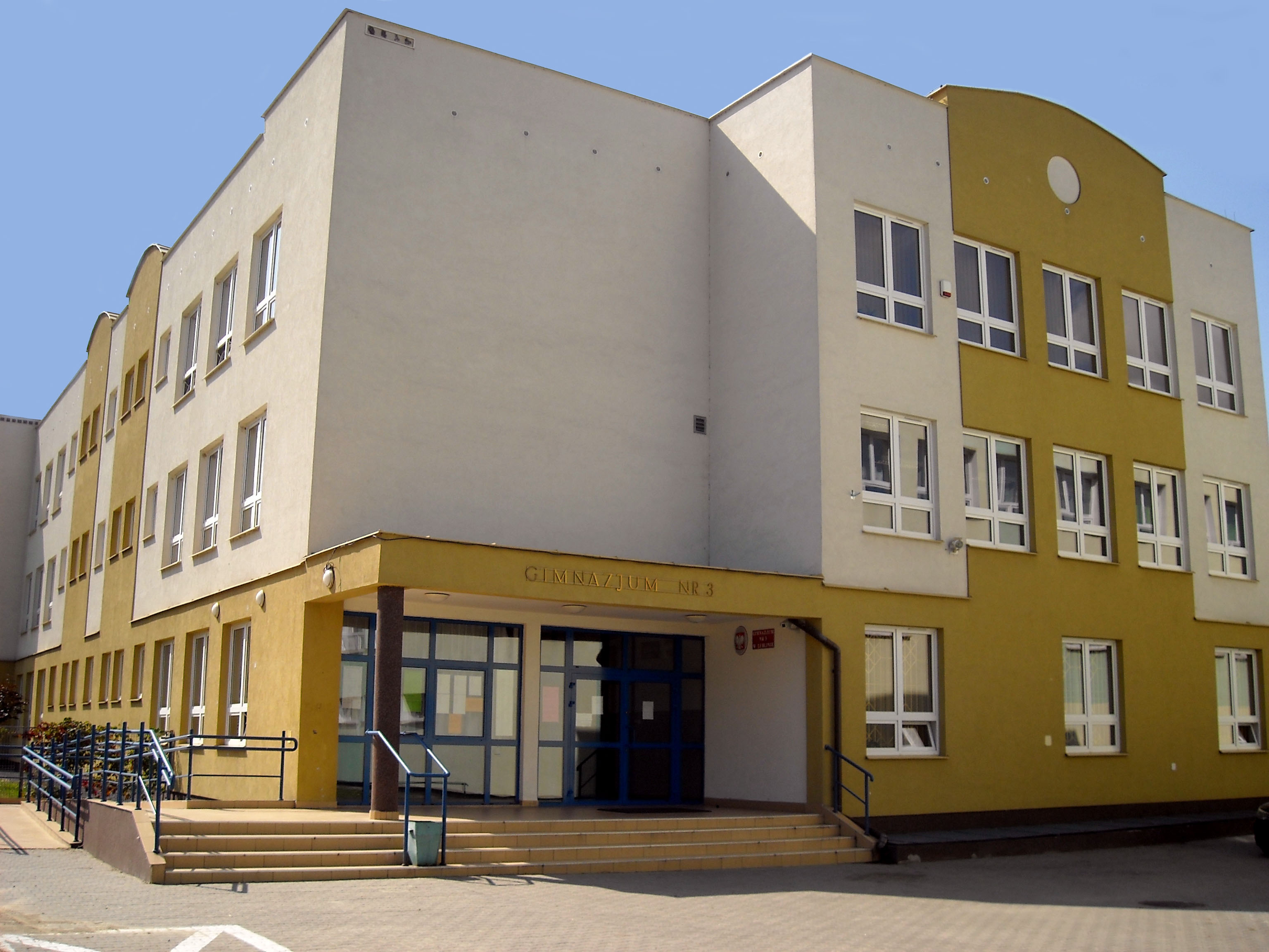 School in the Wrotków district - Junior High School No. 3 at the Nałkowskich Street, Lublin (main entrance)